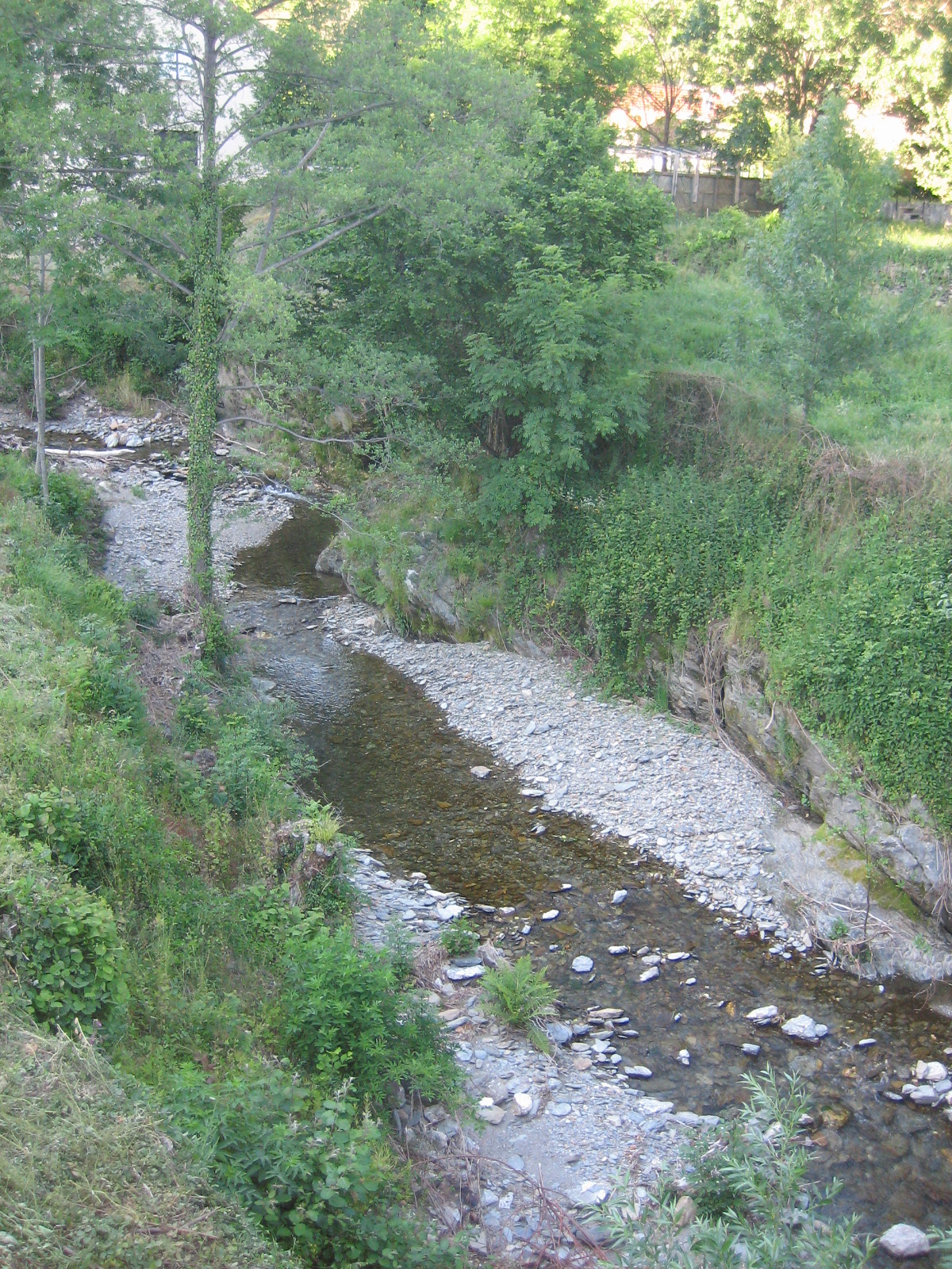 La Cèze à Saint André Capcèze